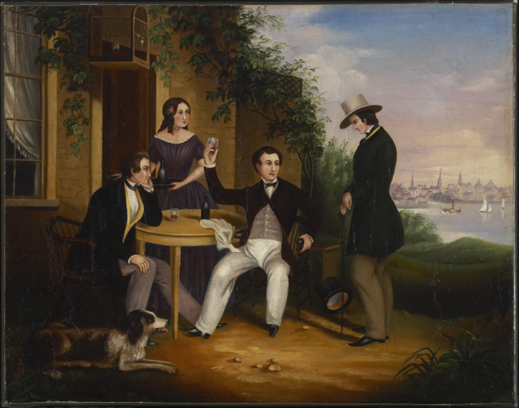 painting by Harriet Clench Kane